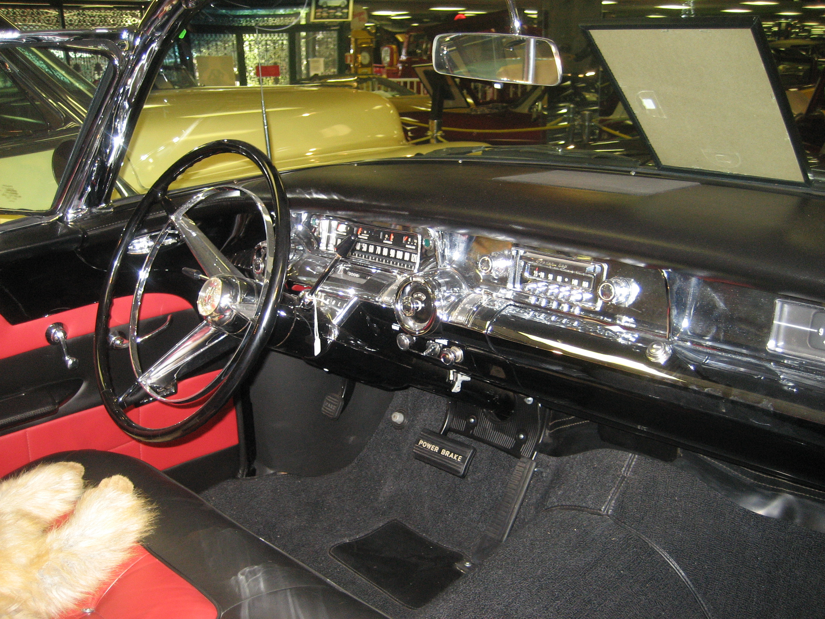 1957 Buick Roadmaster Series 70 Model 76C Convertable on display at Tallahassee Automobile Museum.